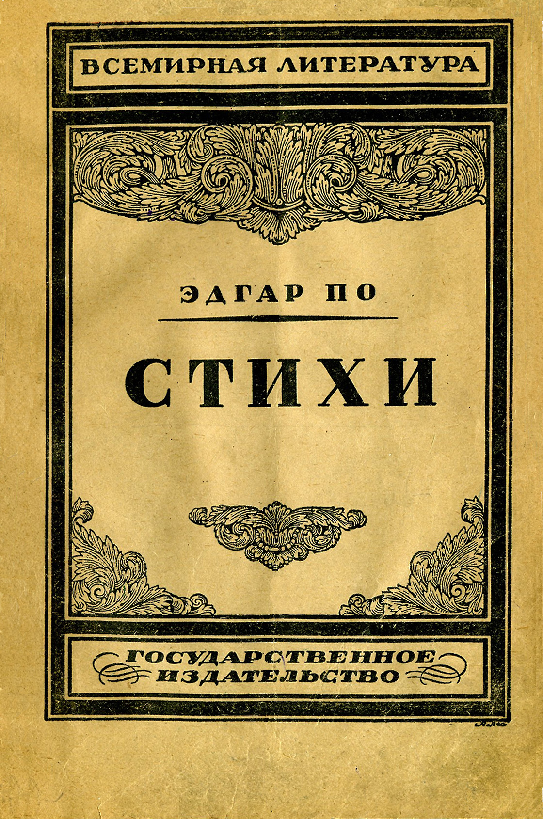 Cover of Edgar Poe's "Poems" translated into Russian by Valery Bryusov